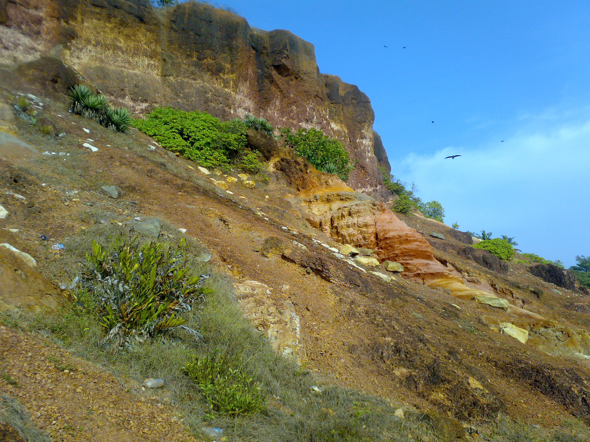 Cliffs of Varkala Beach